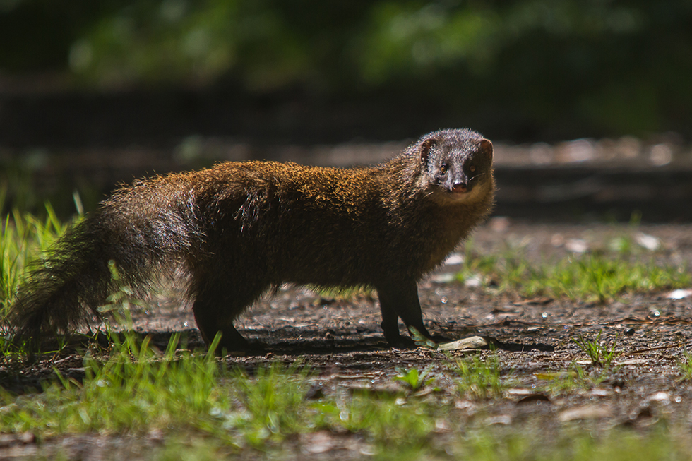 This is a photograph of Indian Brown Mongoose (Herpestes fuscus) from Western Ghats, India